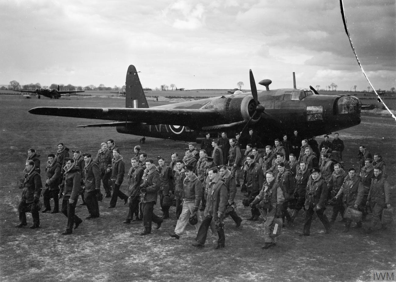 Aircrews of No. 75 (New Zealand) Squadron RAF walking past a Vickers Wellington Mark I at RAF Feltwell, Norfolk, UK, before a night raid to Hamburg, Germany.